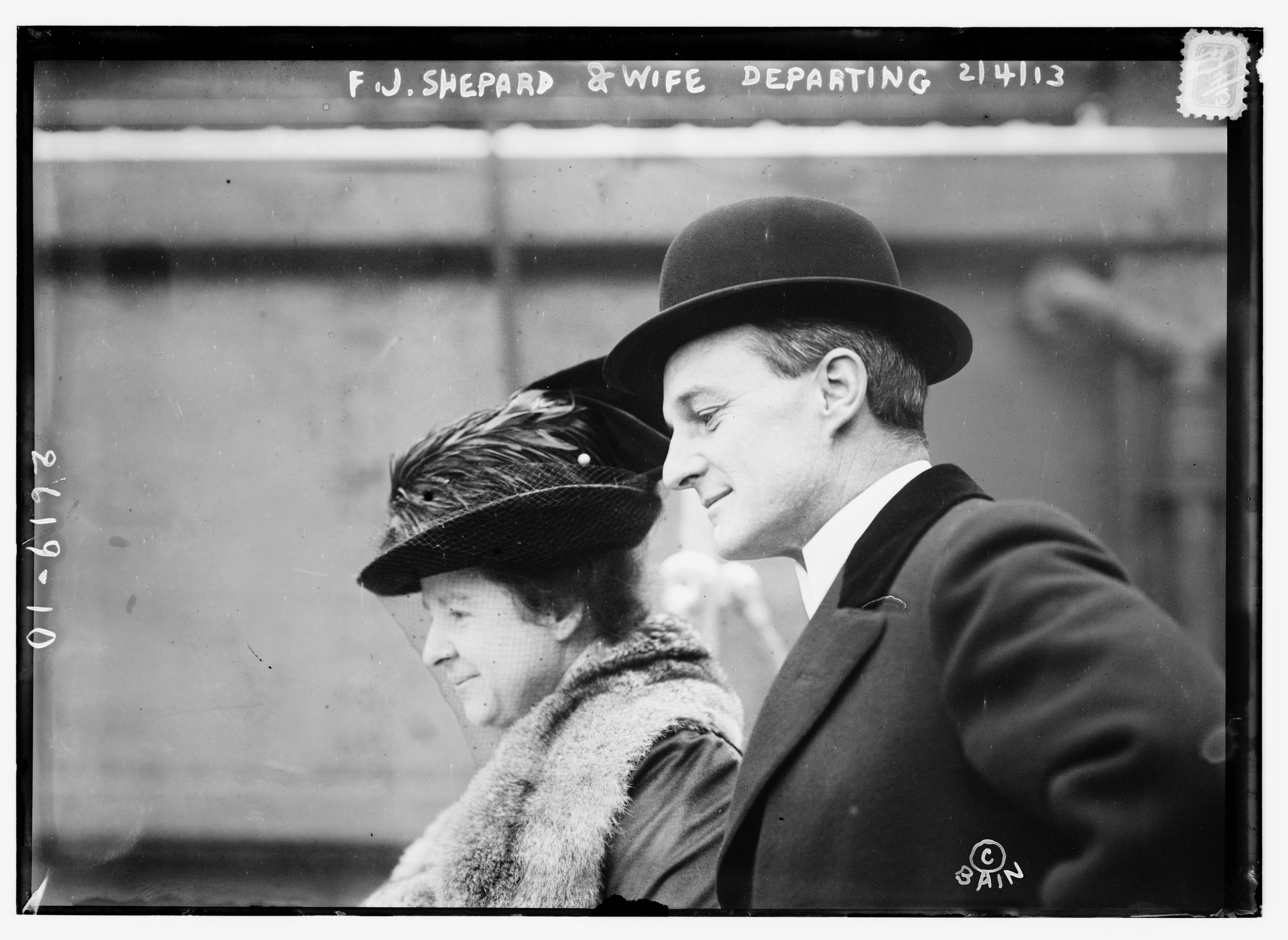 Finley Johnson Shepard and Helen Miller Gould departing circa 1910